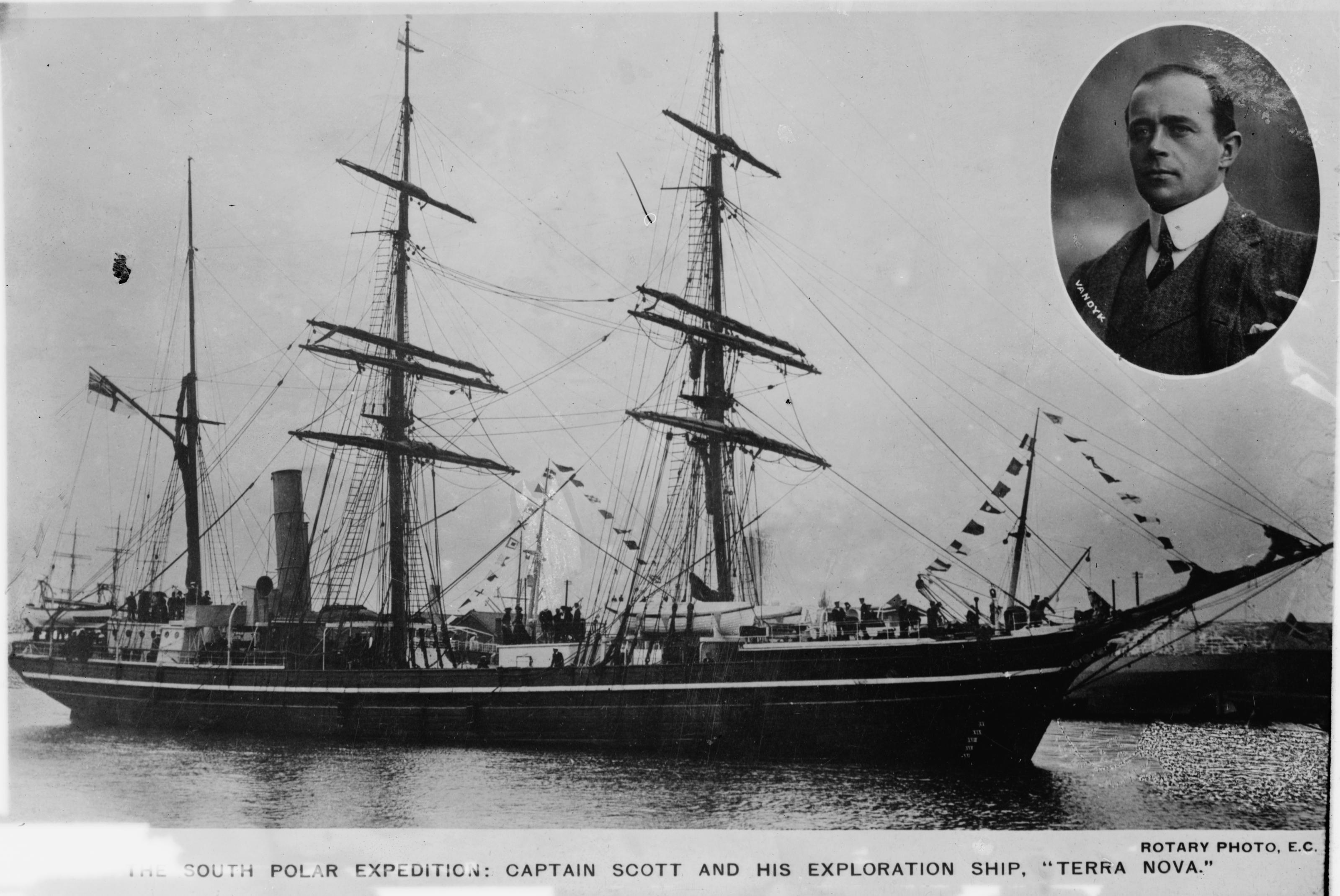 Author: Bain News Service, publisher